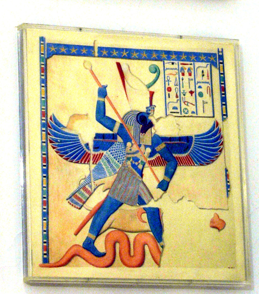 Facsimile, Temple of Amun